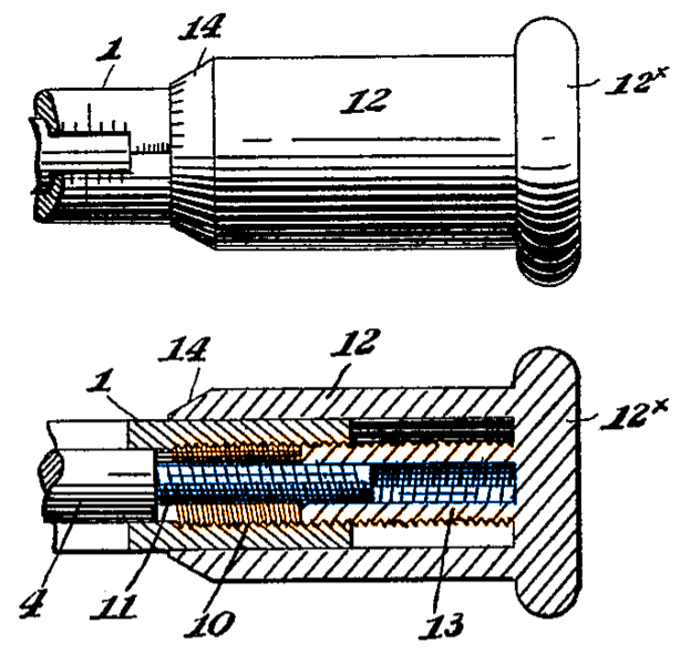 Exterior and cutaway drawing of micrometer adjustment mechanism from US patent 585184[1]. Legend 1 - Main barrel 4 - Adjusting rod (a tab on the rod, not shown, fits into a slot on the barrel to prevent them from rotating relative to each other; they are confined to sliding in and out) 10 - Female screw cut into tube 1 (orange); the example uses a right hand, 20 threads per inch (tpi) pitch 11 - Male screw cut onto rod 4 (blue); the example uses a right hand, 25 tpi thread 12 - Sleeve cap or thimble 12x -Milled bead on thimble 13 - Nut sleeve with, for example, outer 20 tpi threads (orange) and inner 25 tpi threads (blue); fixed attachment to sleeve cap 12 14 - Beveled end of sleeve cap with ruler markings to show rotational movement Each full rotation of the thimble + nut sleeve, 12 + 13, moves the rod 0.01 in (0.25 mm) relative to the main barrel due to the differential motion from the 20 tpi and 25 tpi threads. ↑ US patent 585184 (1897-06-29) Clarke, George R. Calipers